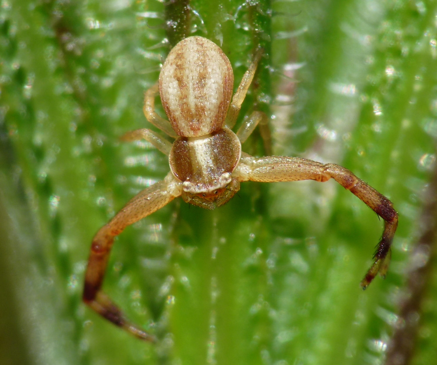 Runcinia grammica, male, near Livorno, Tuscany, Italy